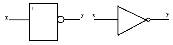 EI-loogika skeem